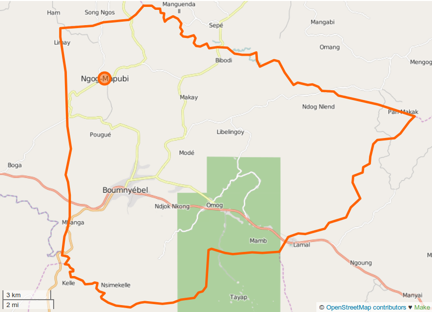 Ngog-Mapubi, Cameroon ː commune boundaries, with OSM. This map may be incomplete, and may contain errors. Don't rely solely on it for navigation.